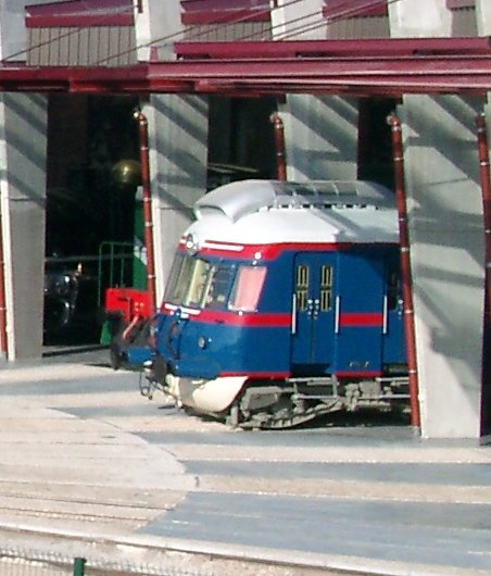 0304 railcar of the portuguese railways 0300 series, kept in the original colors in the National Railway Museum, in Entroncamento, Portugal